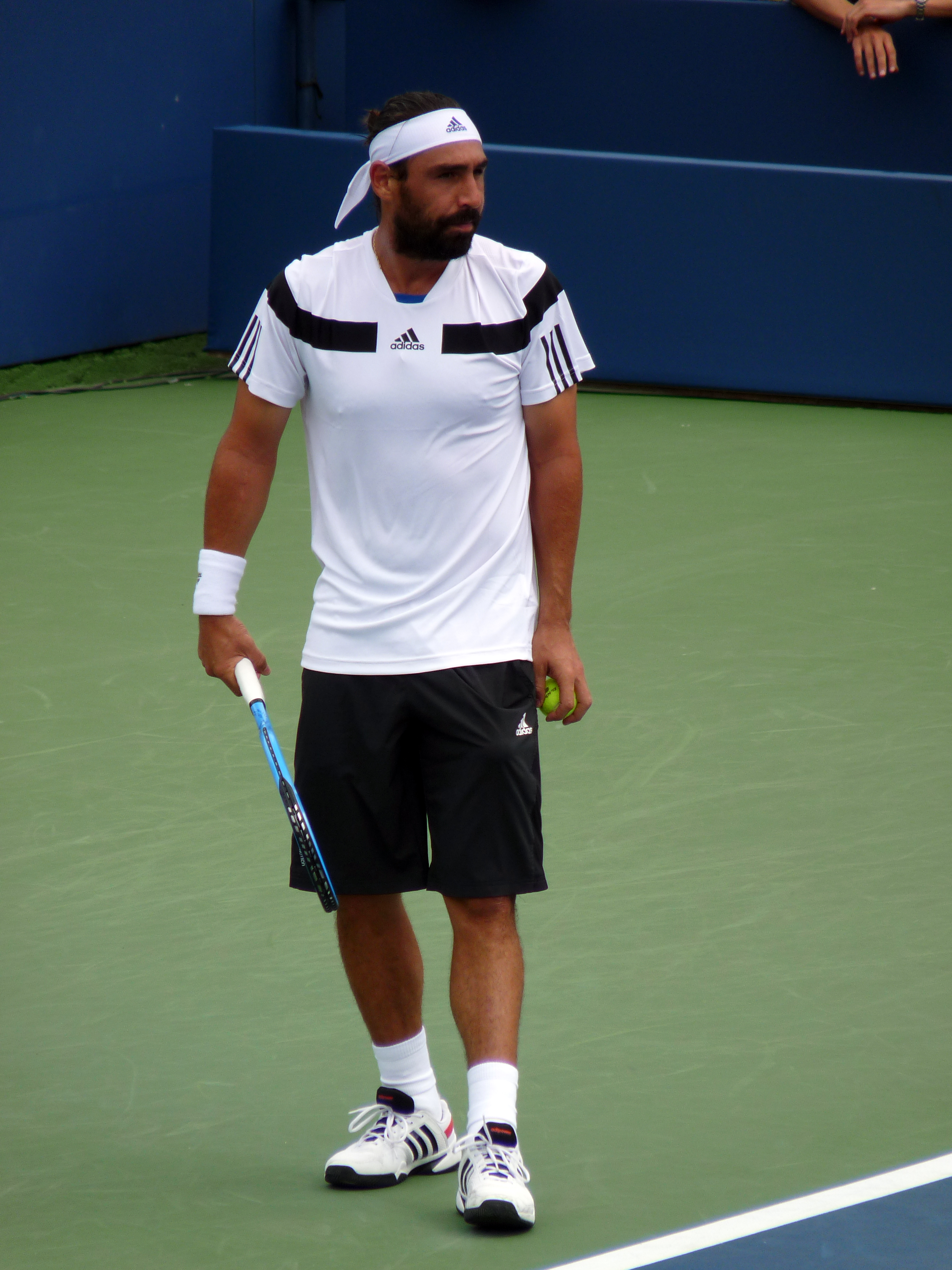 US Open 2012 Men's Singles 3rd Round (Louis Armstrong Stadium) Stanislas Wawrinka [9] vs. Cyprus Marcos Baghdatis 6–3, 6–2, 6–7(1–7), 7–6(9–7)